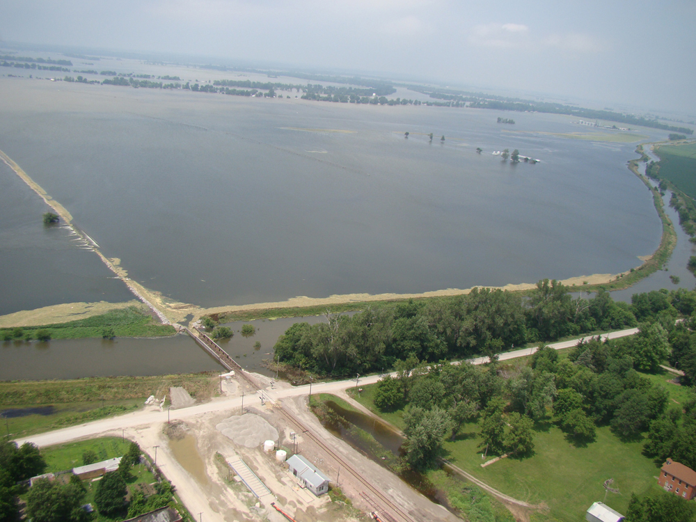 The 2011 Missouri River floods from Fortescue, Missouri looking toward Big Lake (which is obliterated). The Missouri River is 5+ miles wide. The BNSF railroad which is the main coal line for the Kansas City Iatan powerplant has been breached.